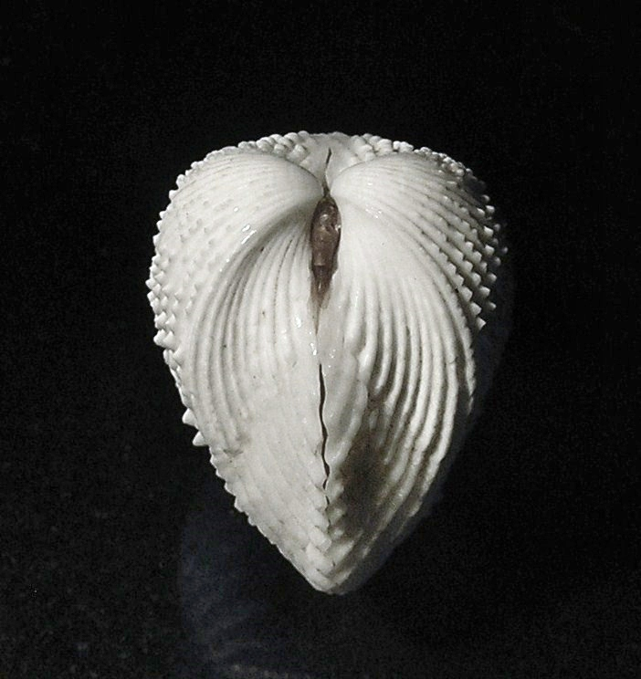 Ctenocardia fornicata (Sowerby II, 1840) , a cockle from the family Cardiidae; South Chine Sea